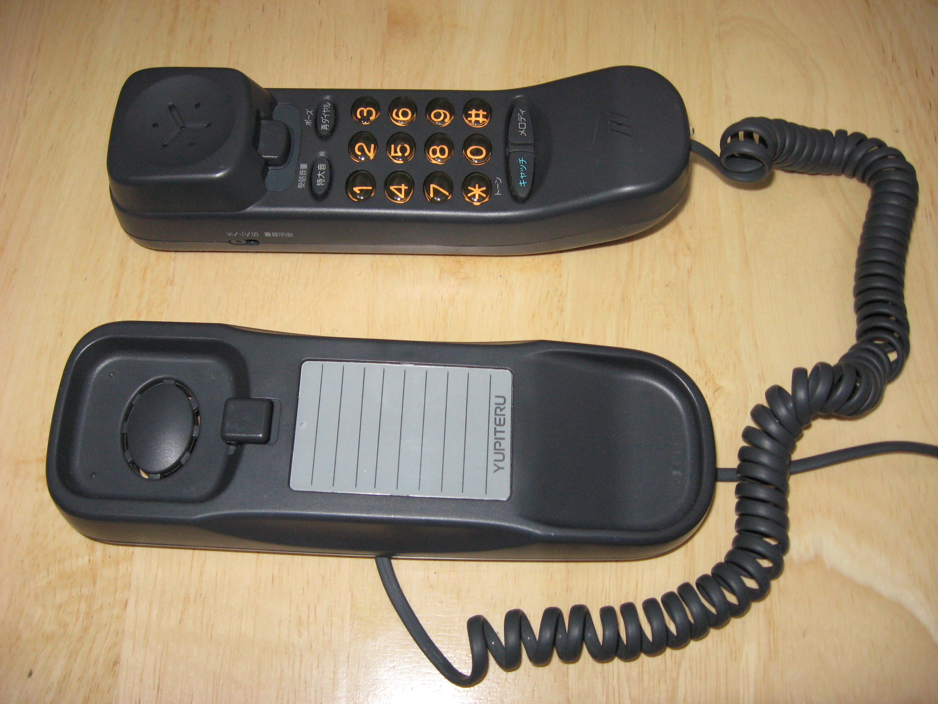 YUPITERU YP-S2, a basic telephone.